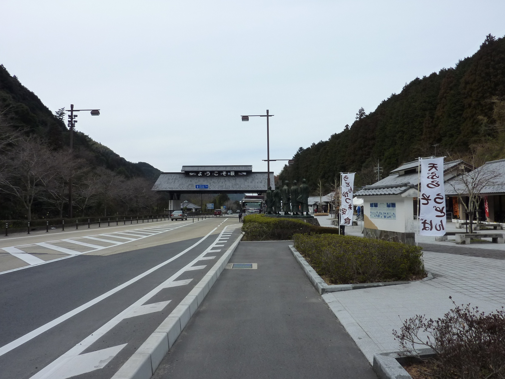 Hagi Road (Hagi City, Yamaguchi Japan)